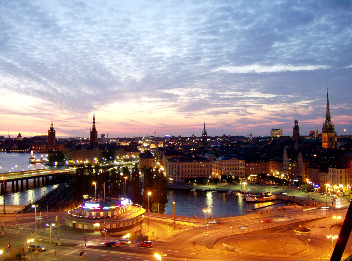 Gamla Stan from Katarinahissen